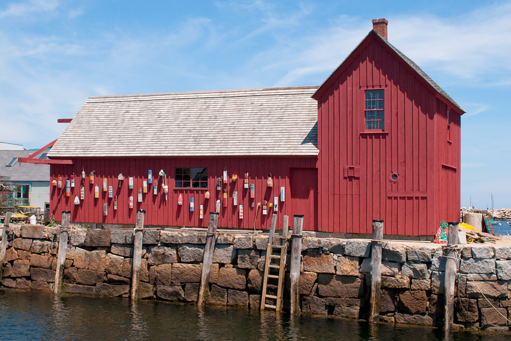 A fisherman's shack on Bradley Wharf in the harbor of Rockport, Massachusetts, USA, is recognizable to students of art and art history as Motif Number 1.